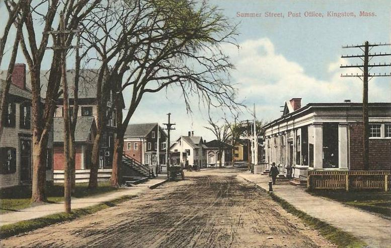 Summer Street and post office, Kingston, Massachusetts